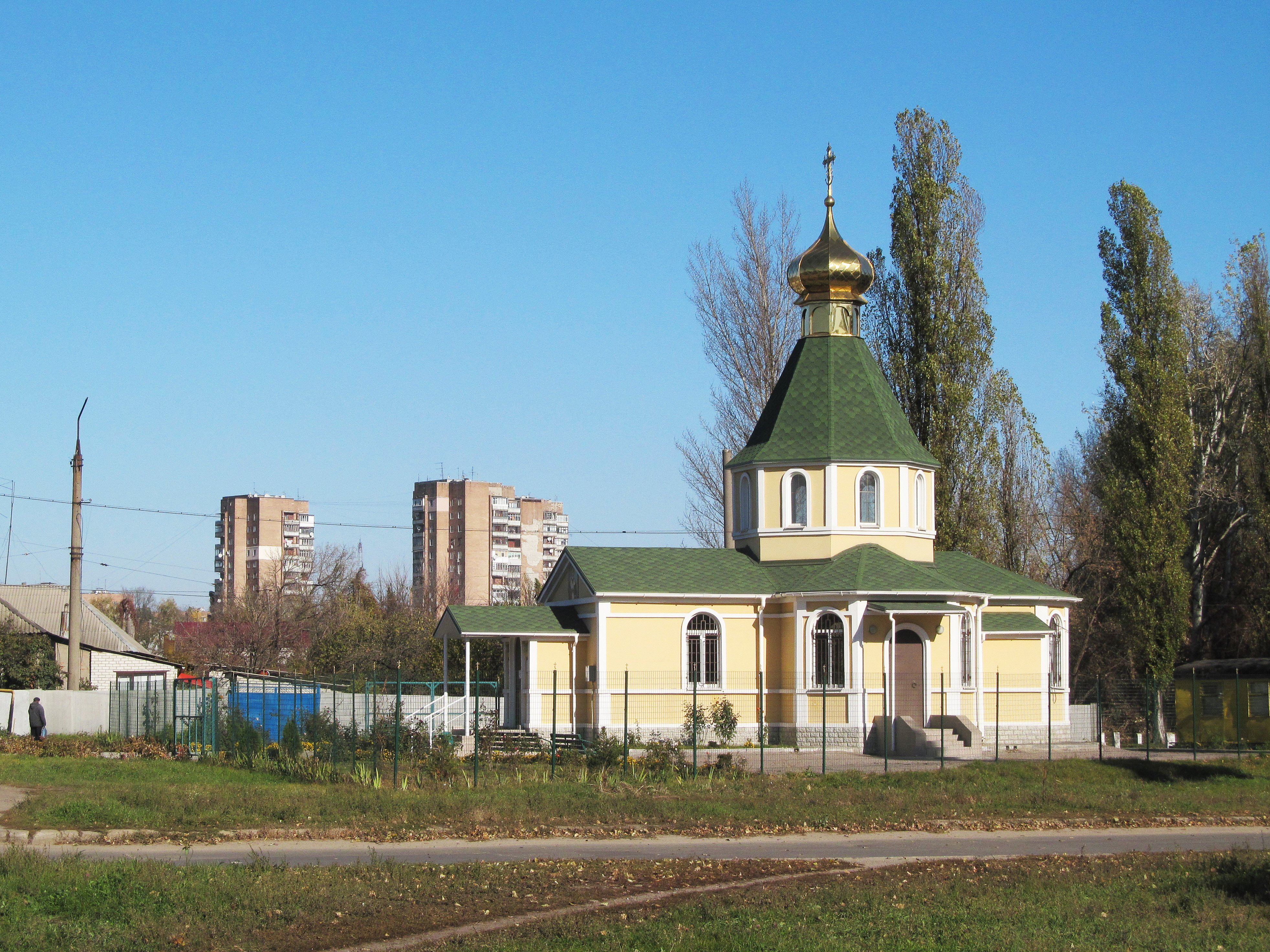 Vlasenko St. 1, Kharkiv, Ukraine. Saint Nikolai Church.